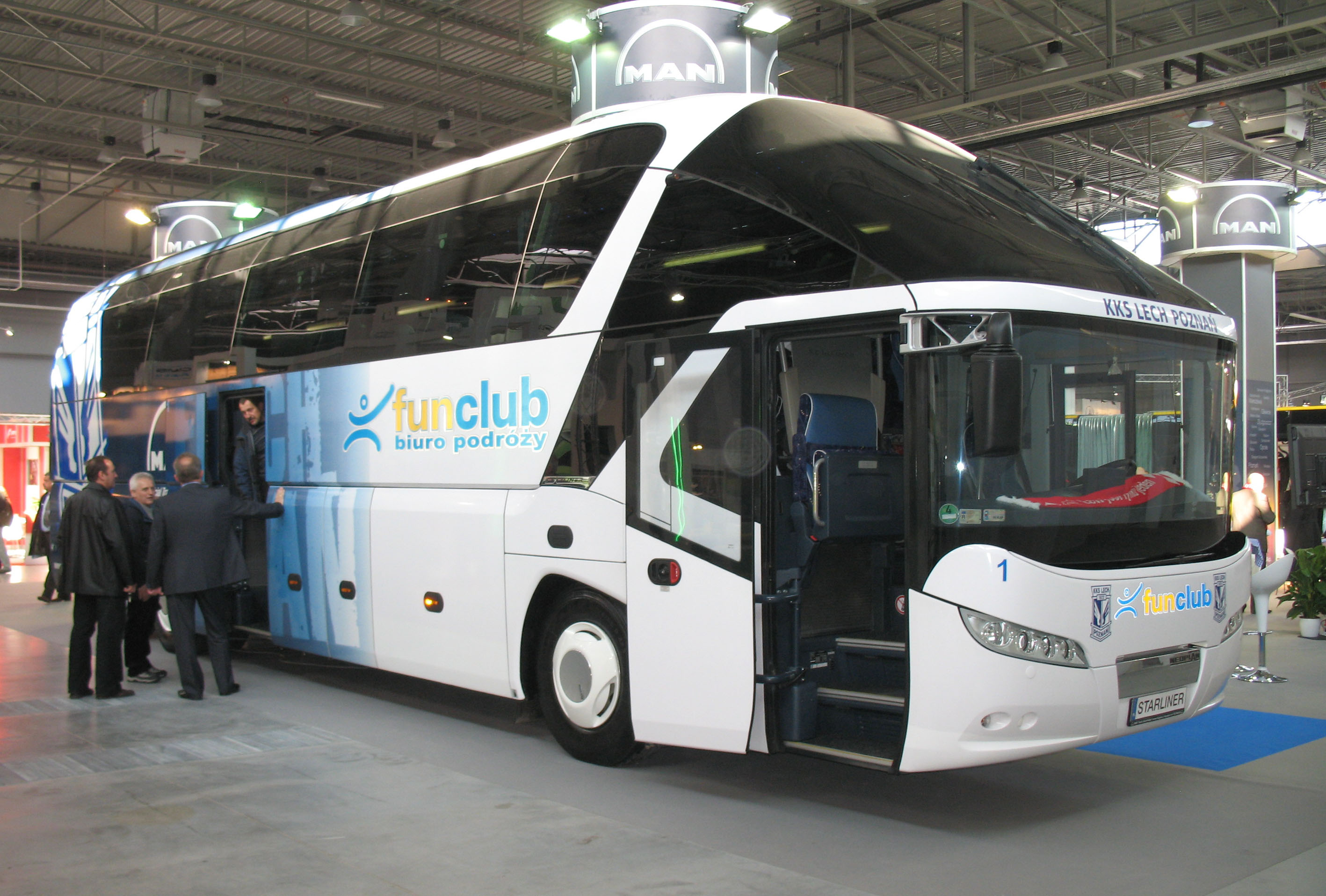 Neoplan N5217 Starliner L coach (#1, reg. W0 WLKP) in Kielce, Poland. Built 2010, Fun Club Poznań operator. Transexpo 2010.